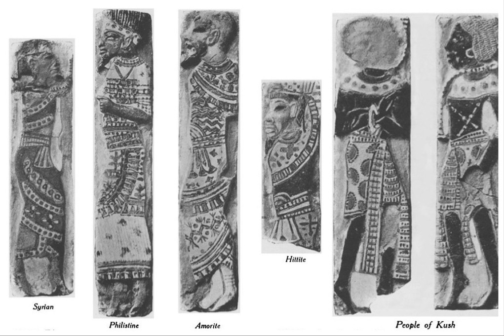 Ramesses III prisoner tiles from Tell el-Yahudiya, catalogued in 1908 by the Boston Museum of Fine Arts